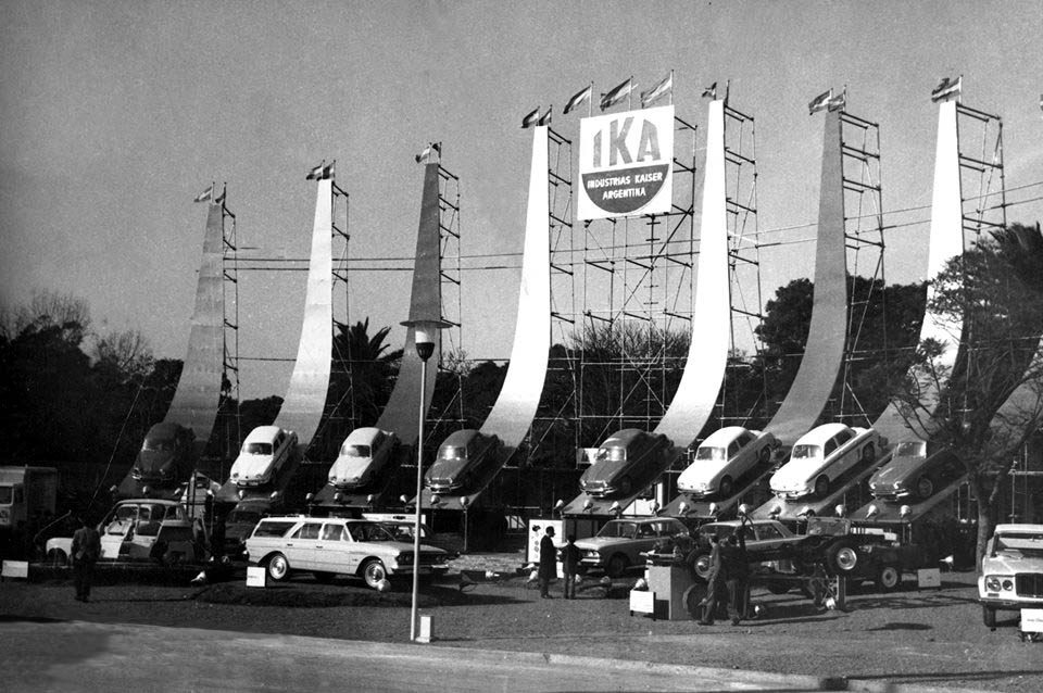 Exposition of cars manufactured by "Industrias Kaiser Argentina" (IKA), a motor car company established as a joint venture with Kaiser Motors of the United States.